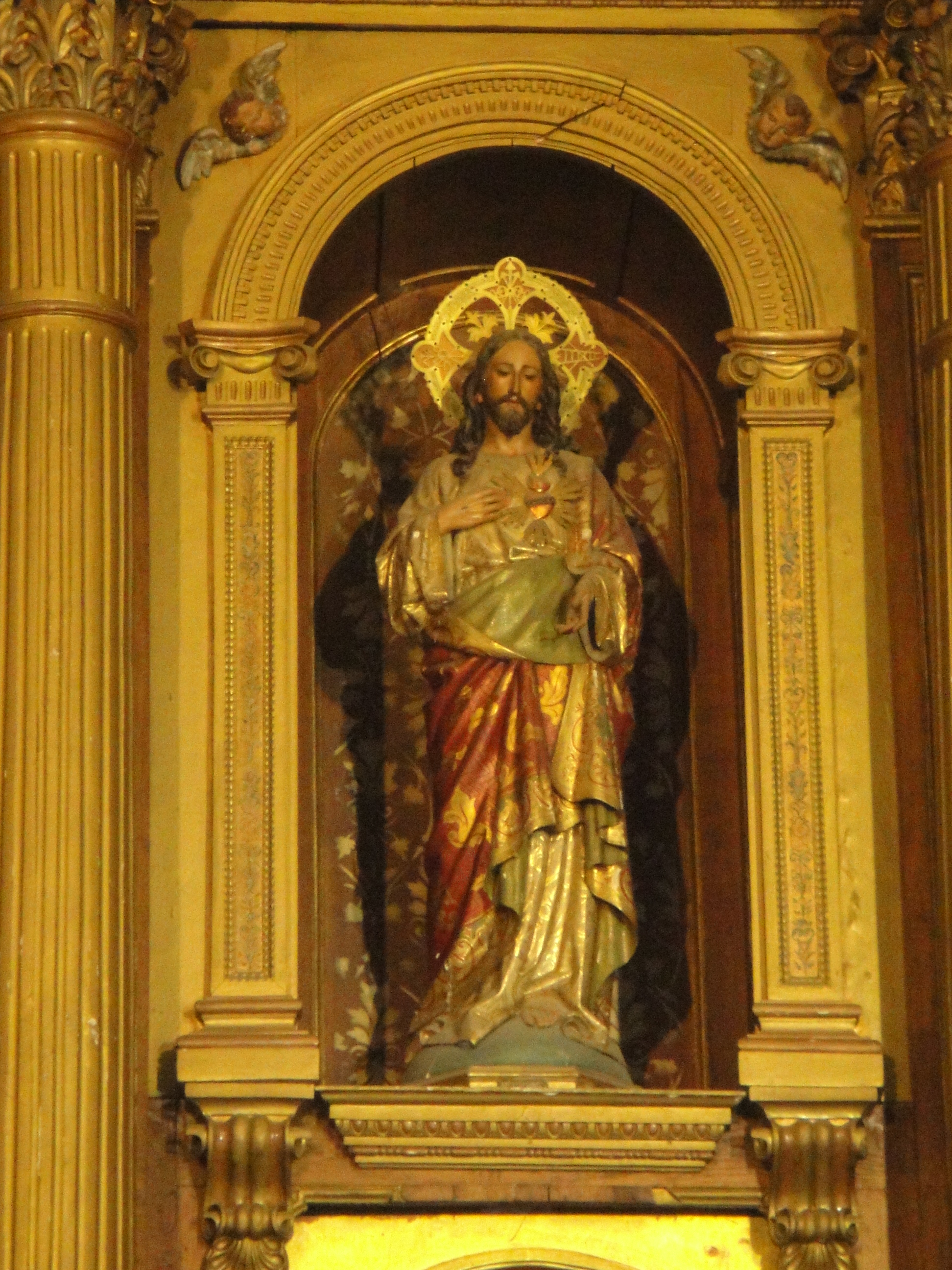 Church of St. Michael. Villanueva de Córdoba. (Spain).